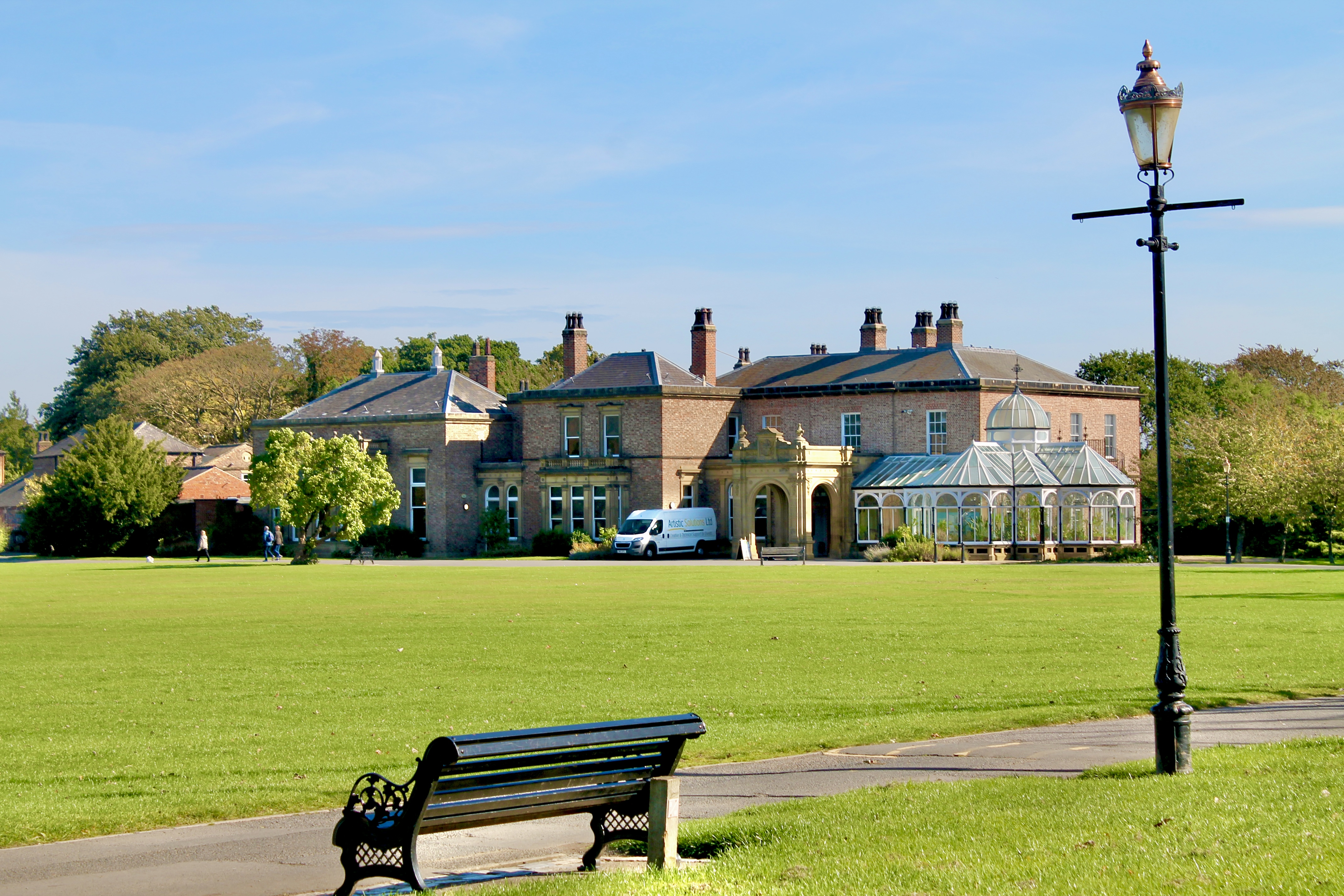 Preston Hall museum in Eaglescliffe.